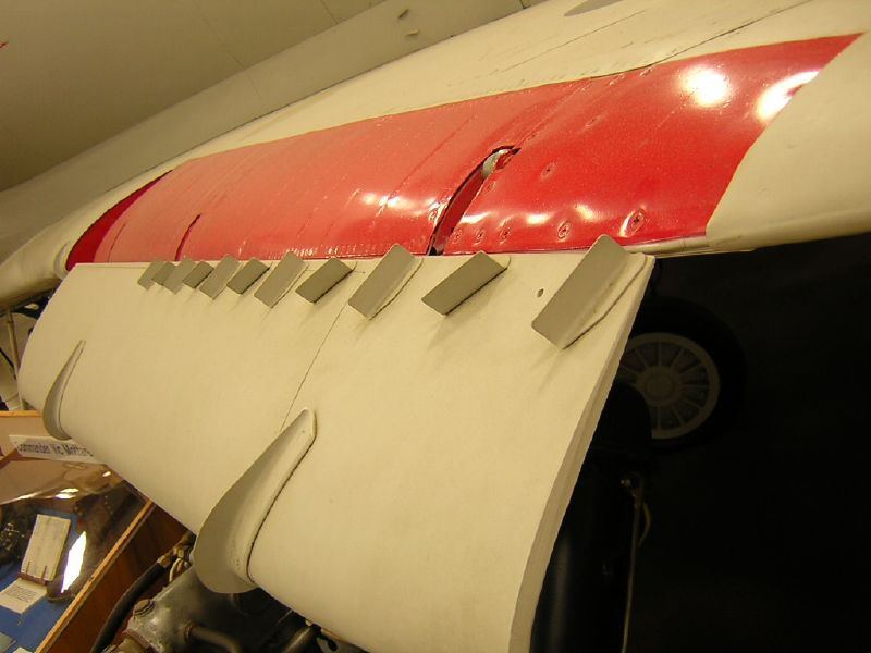 Douglas A4D-1, Skyhawk, 1956 Leading edge slat deployed, with vortex generators visible